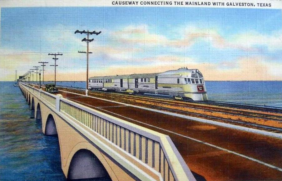 Postcard depiction of the Sam Houston Zephyr in 1939.